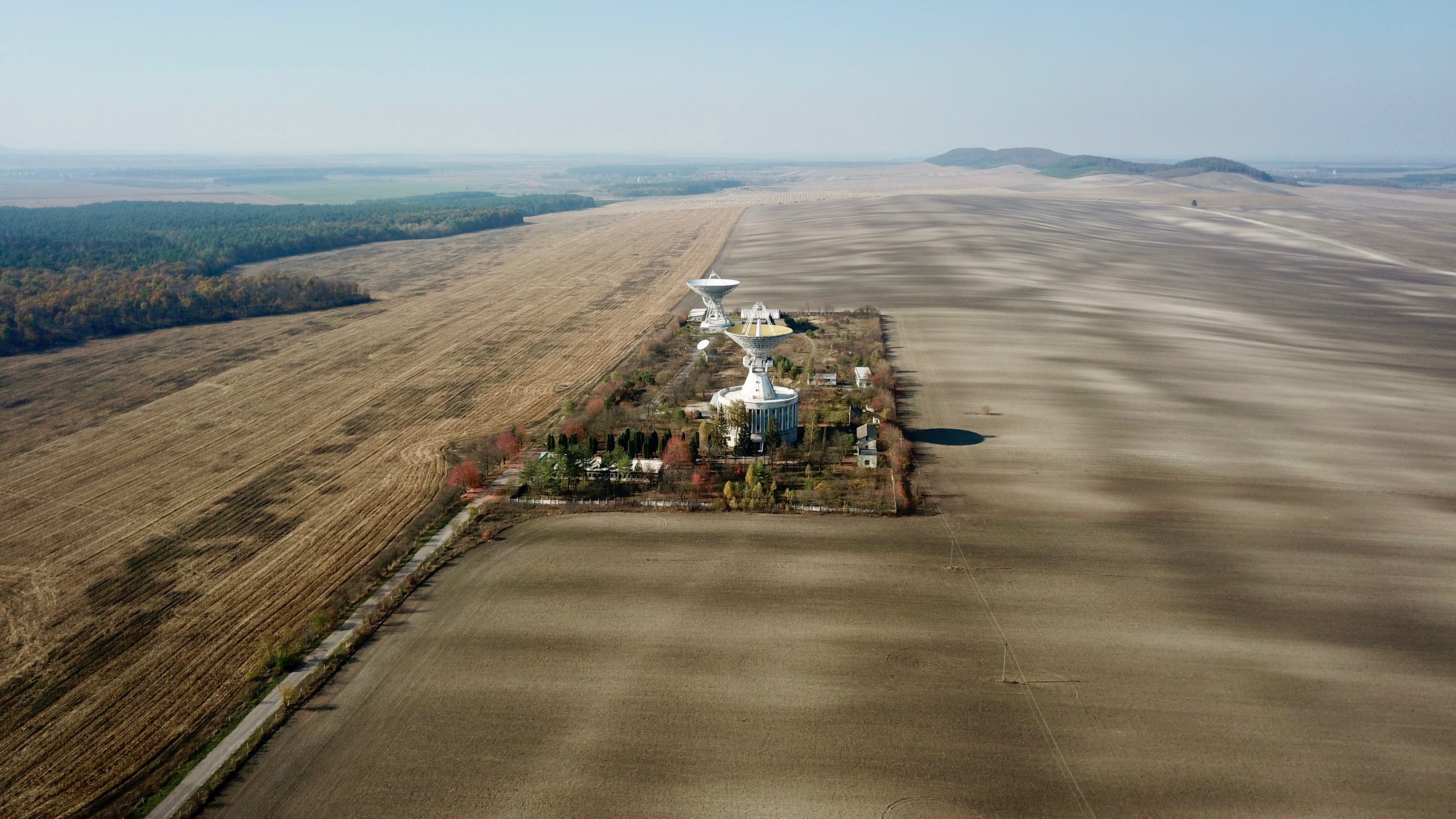 Aerial view of Zolochiv Space Communication Centre near Sasiv village, Lviv Region, Ukraine